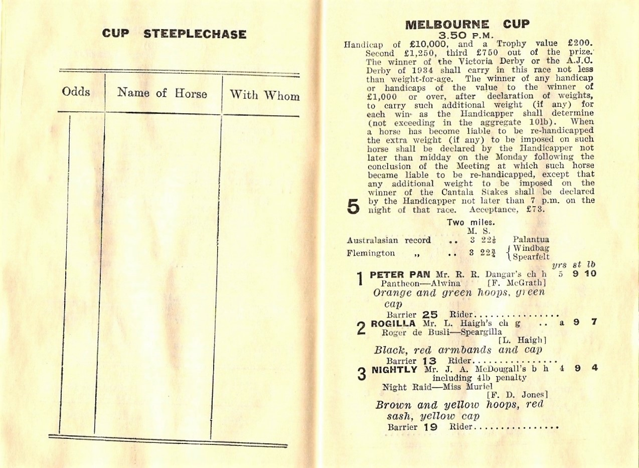 COPIED FROM ORIGINAL RACEBOOK